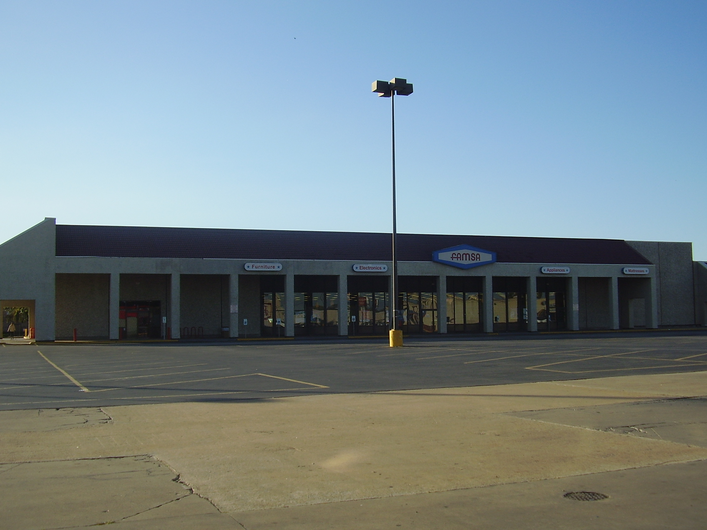 Famsa store - #38 Bellaire - Gulfton area - 6742 Hillcroft Street, Houston, Texas, 77081